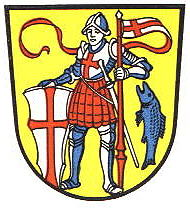 Coat of arms of the town Dießen am Ammersee